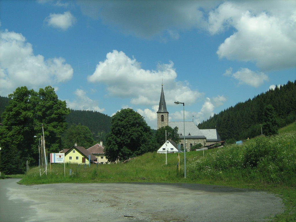 Horní Údolí village, Zlaté Hory, CZ